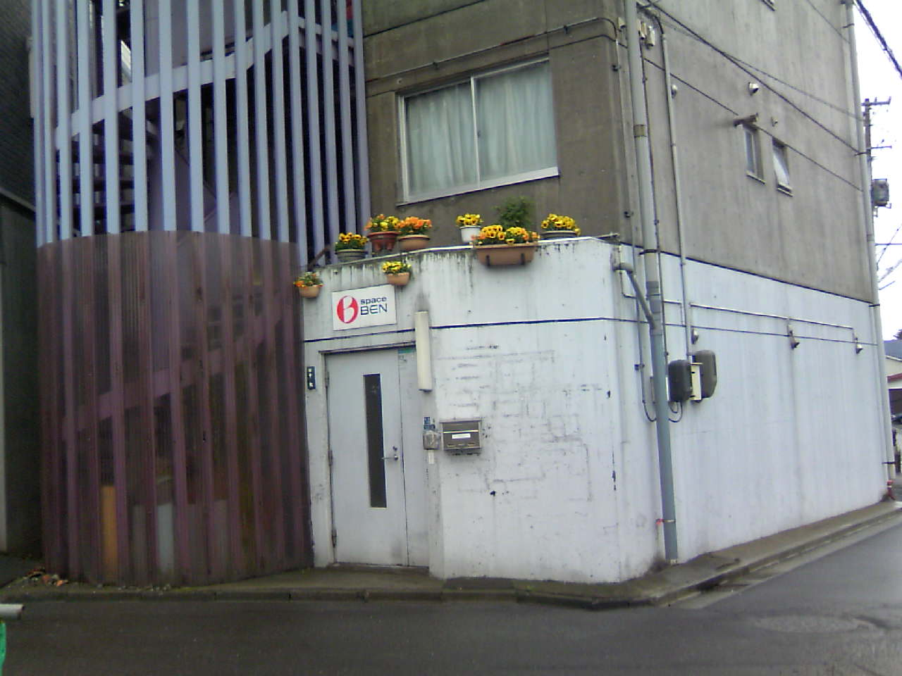 多目的スペース「スペースベン」（青森県八戸市） (Playhouse SpaceBen - Hachinohe, Aomori, JAPAN)